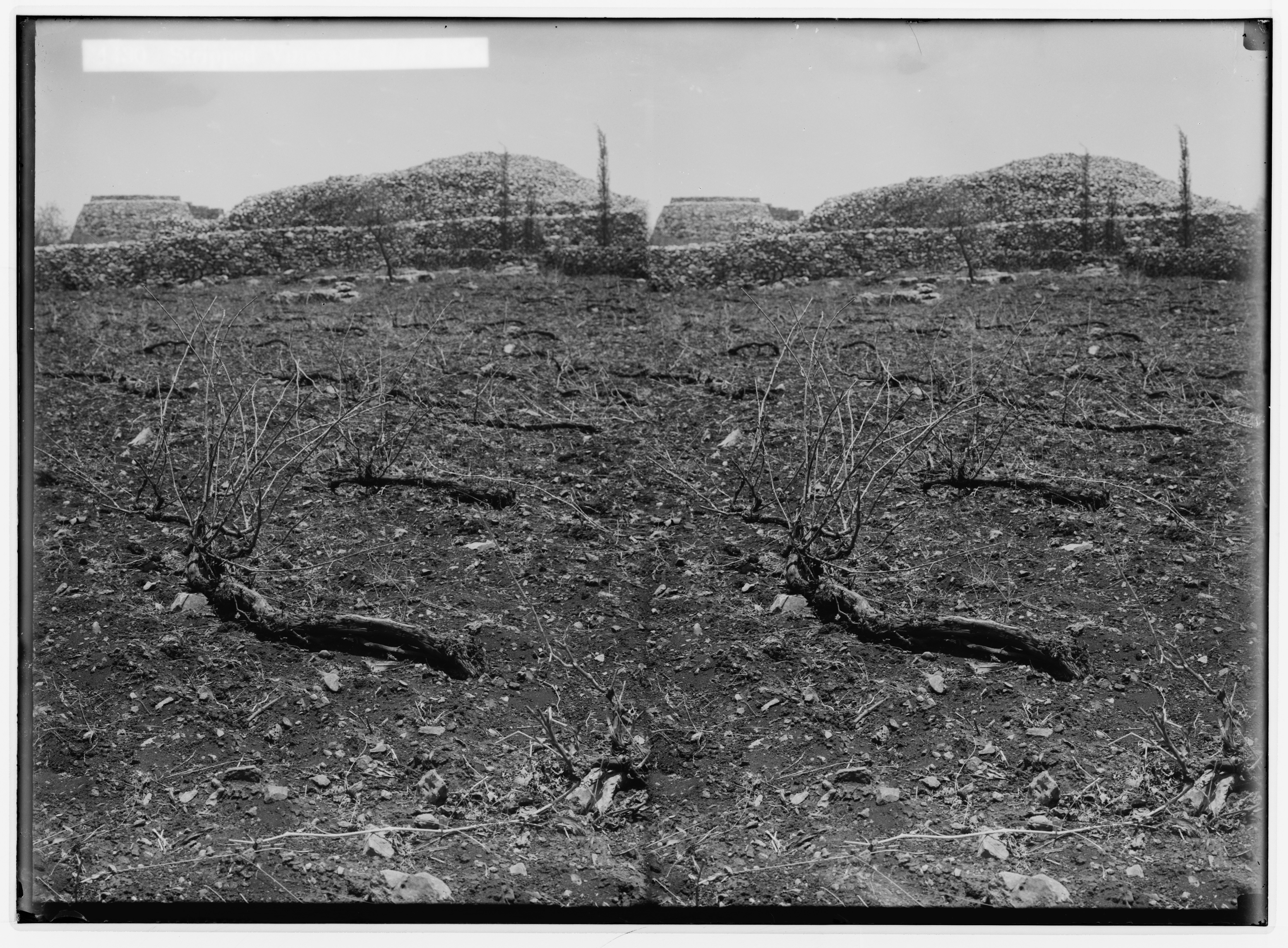 Title: The terrible plague of locusts in Palestine, March-June 1915. Stripped vineyard. Abstract/medium: G. Eric and Edith Matson Photograph Collection Physical description: 1 negative